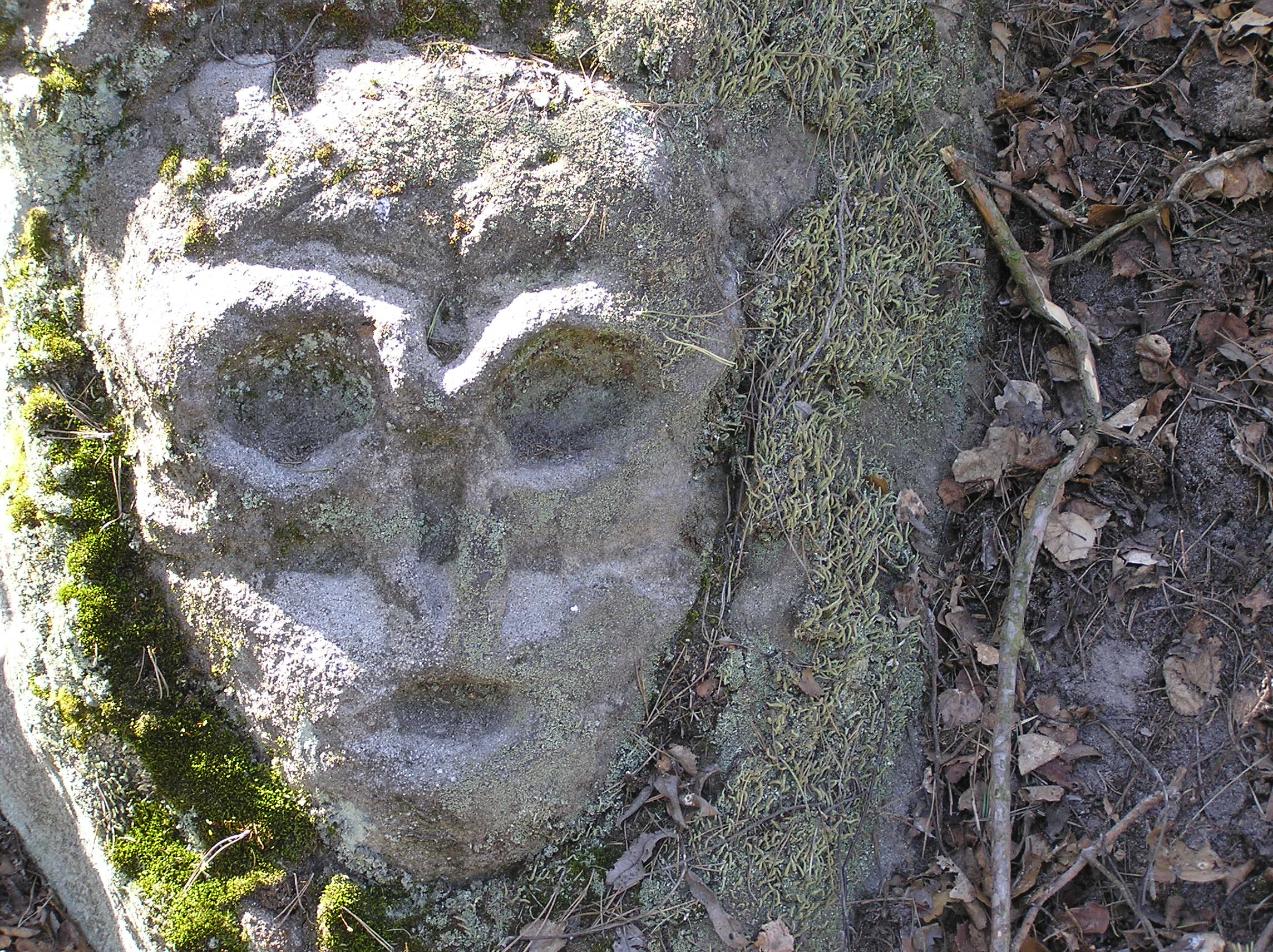 The relief in the wood by Pnetluky, Czech Republic